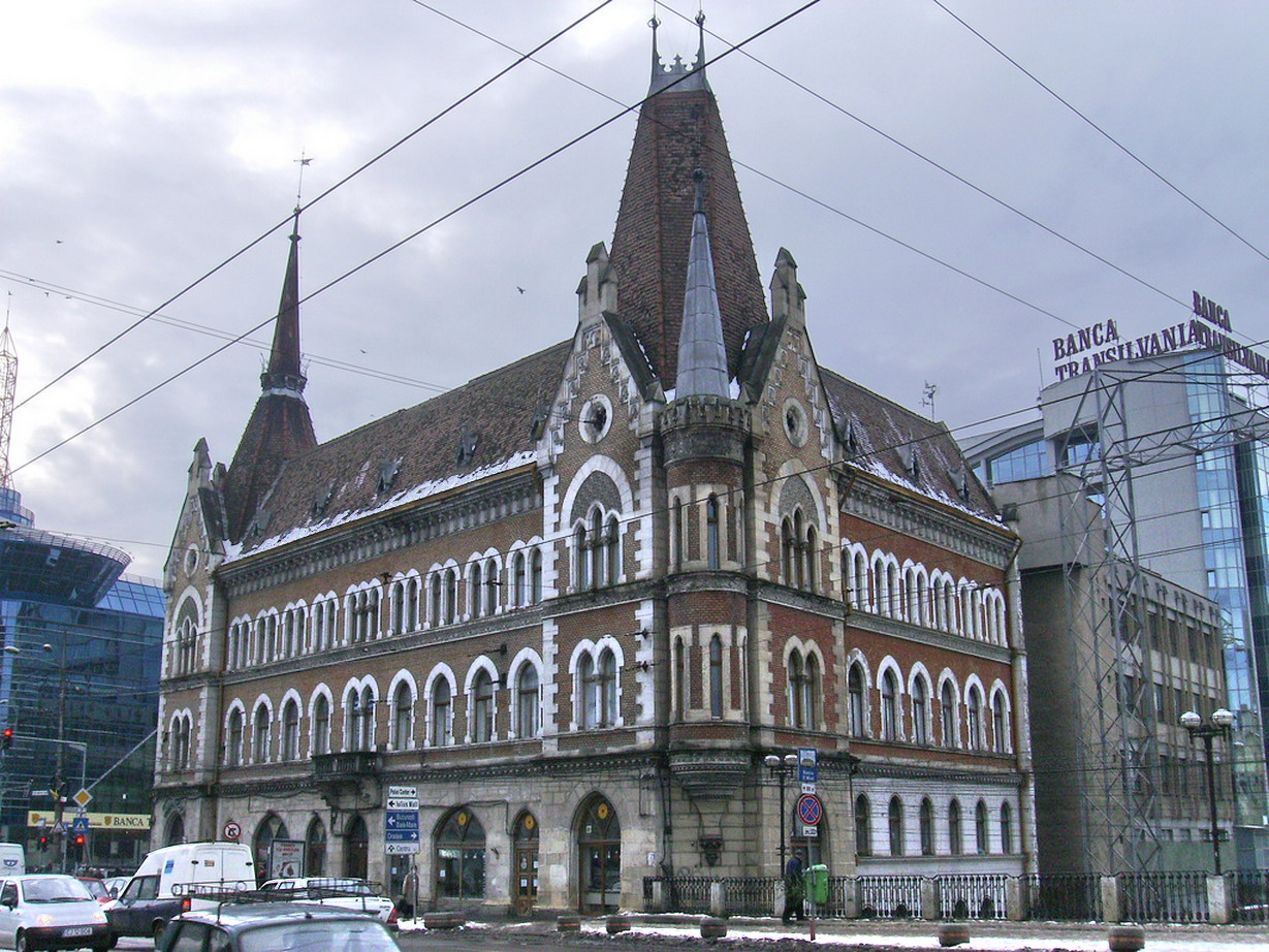 Cluj-Napoca, Széki Palace